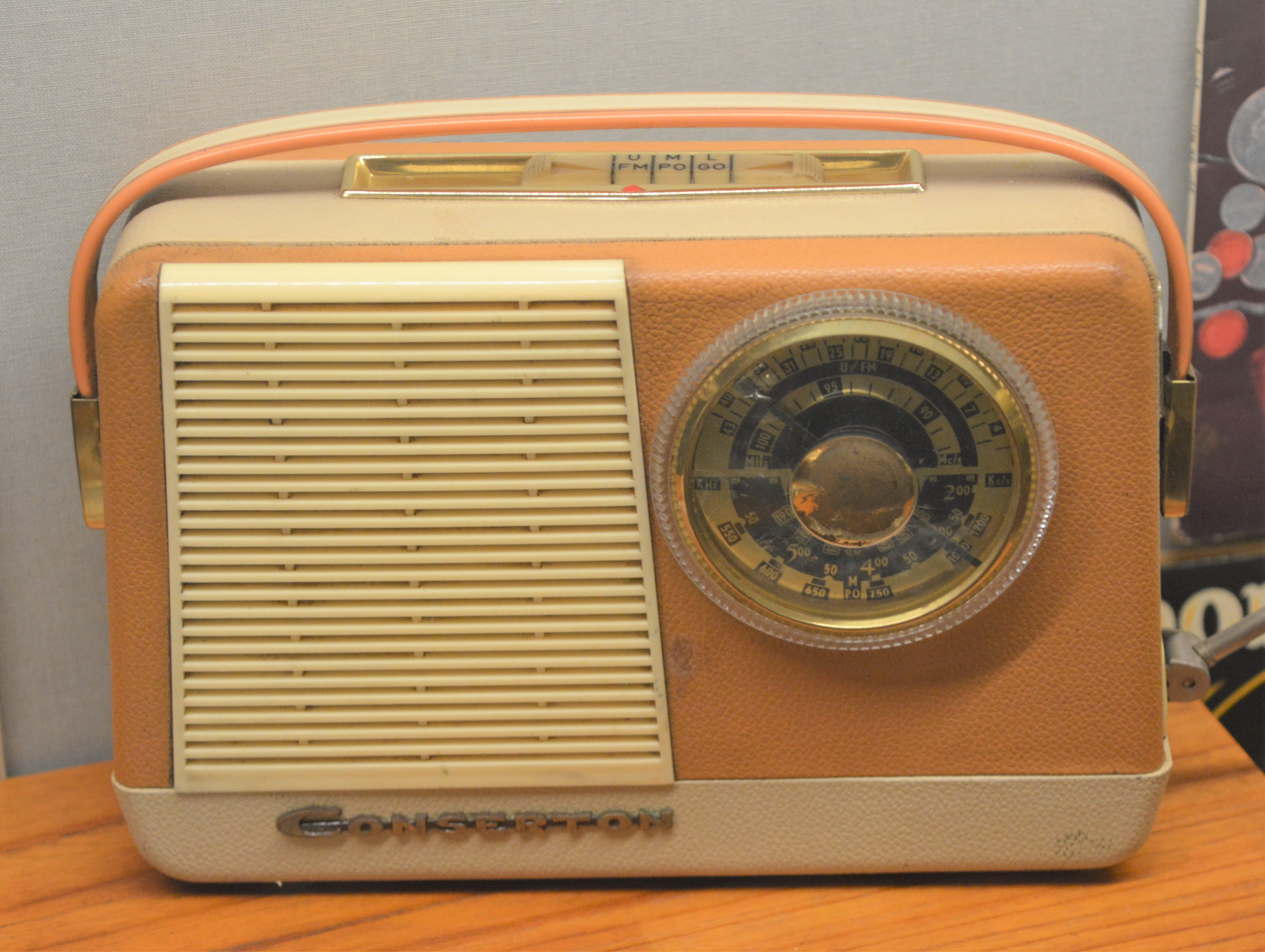 Conserton transistor radio